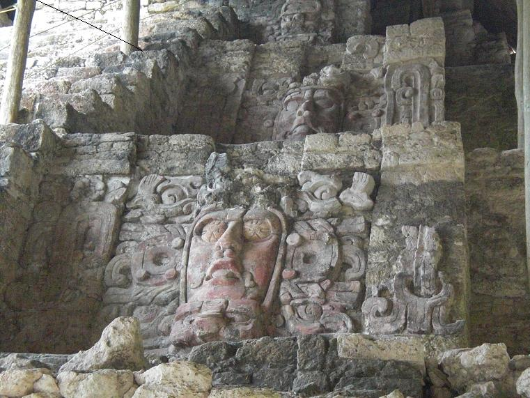 Pyramid of the Mask. Right side of the staircase. Kohunlich